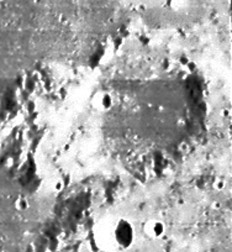 LO-IV-091-H2 Mason is the crater near the center. The crater partially visible to its lower left is its similarly-sized companion Plana. The cookie-like mass filling the left half of the image is regarded as a volcanic dome by Schultz, 1976 (pp. 150-151).